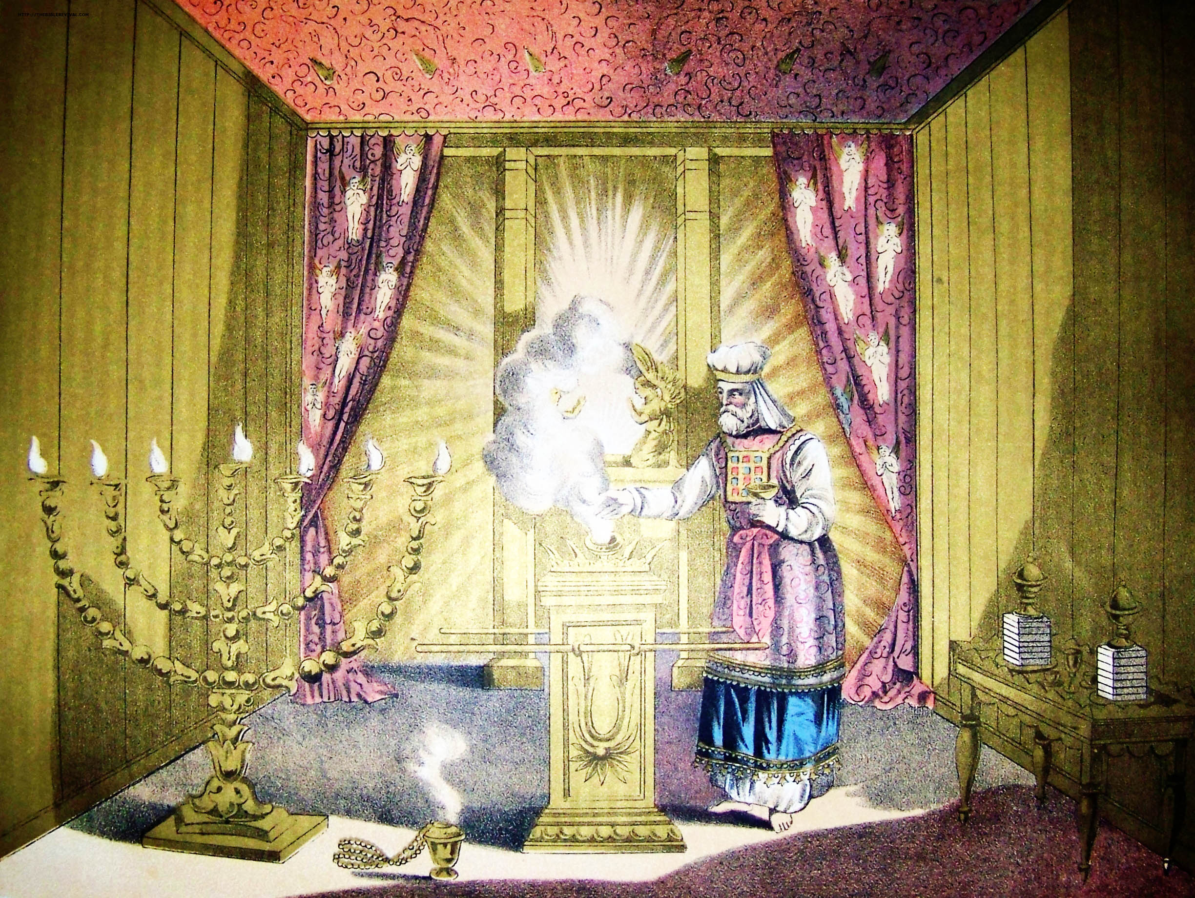 The Holy of Holies; illustration from the 1890 Holman Bible